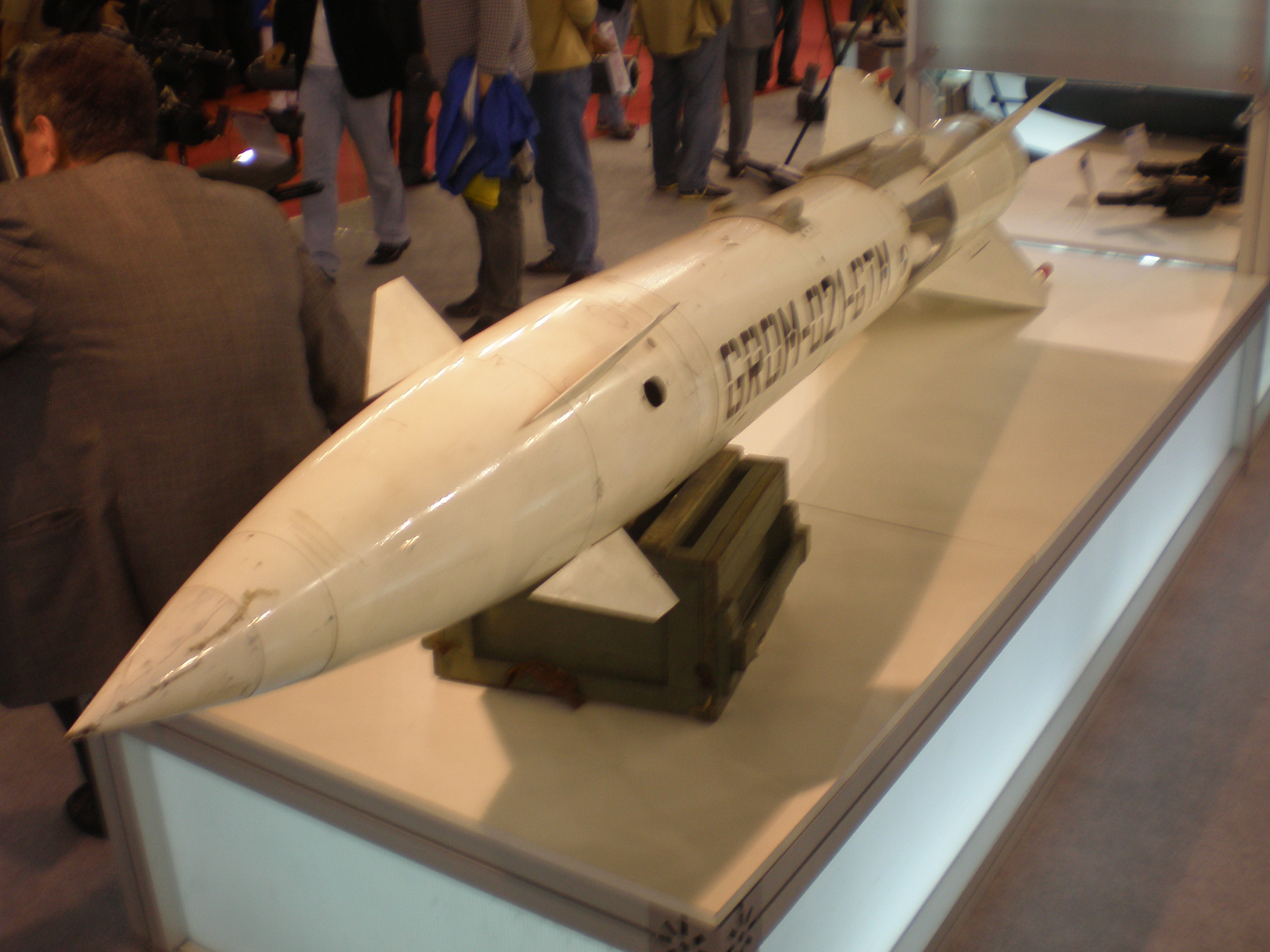 GROM-021-GTM air-to-surface missile on display at "Partner 2009" military fair.